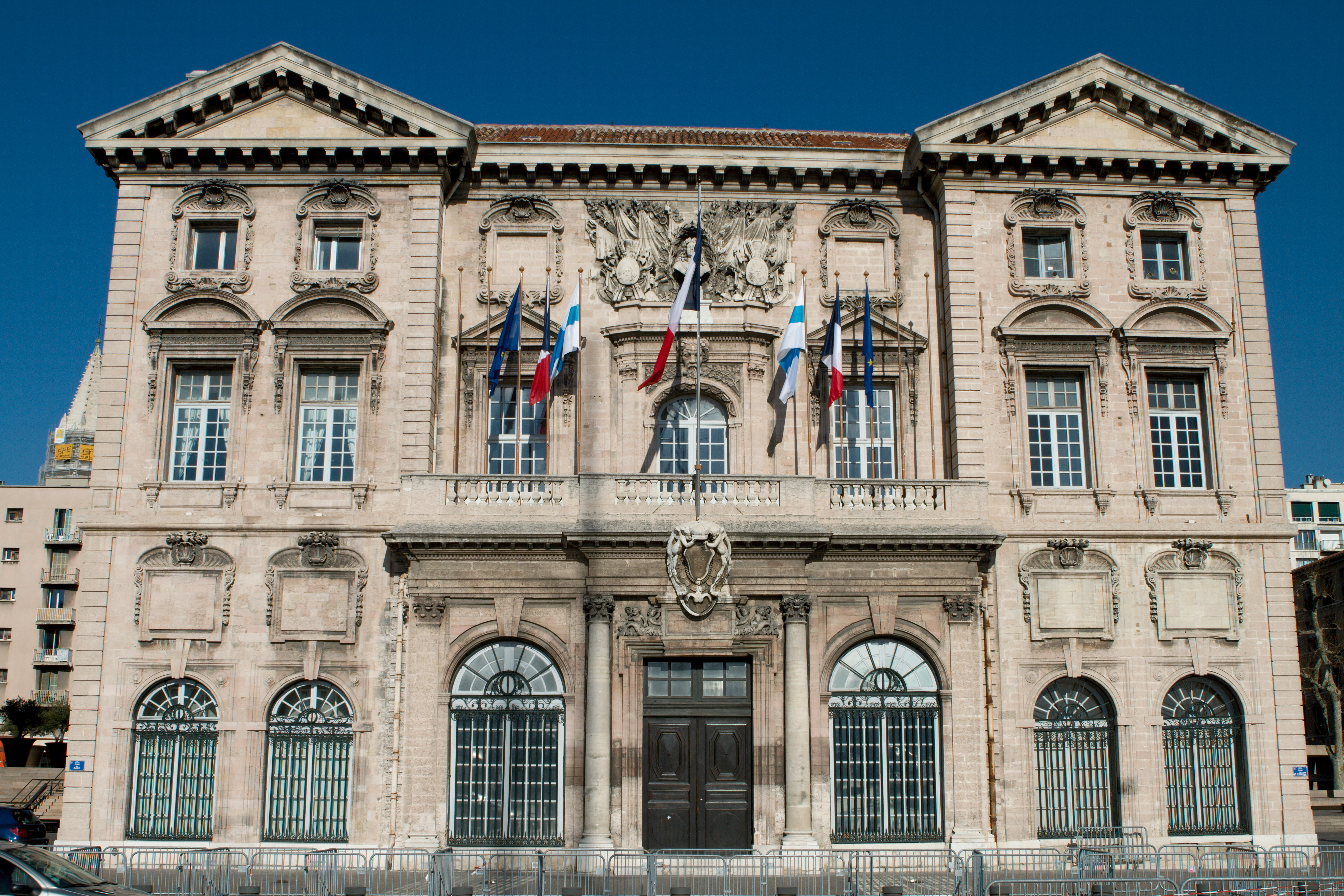 The town hall of Marseille, Bouches-du-Rhône (France).